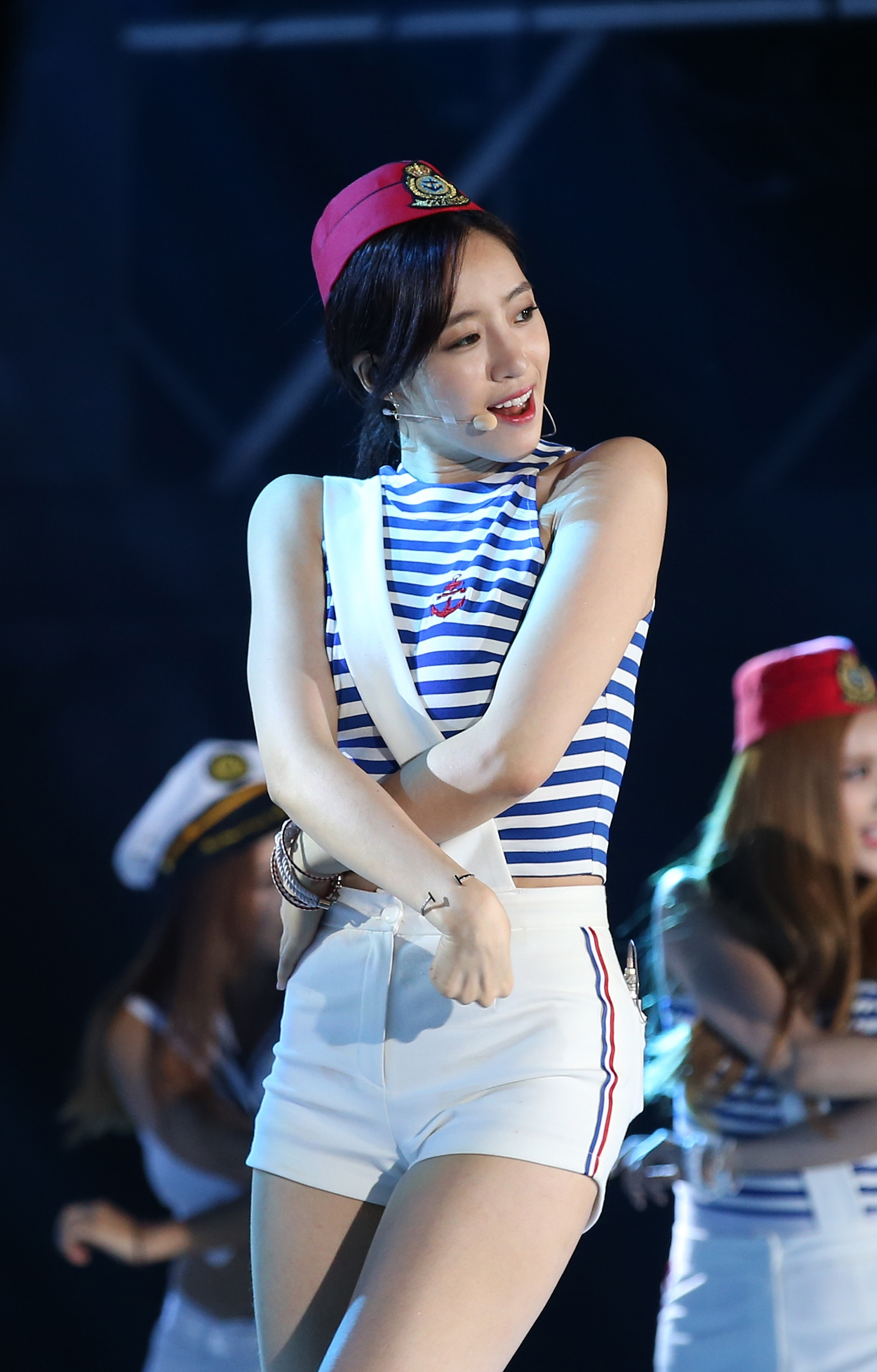 2015 Summer K-POP Festival. August 4, 2015. Seoul Plaza .Ministry of Culture, Sports and Tourism .Korean Culture and Information Service. ( Photographer : Jeon Han. The photograph not be used in any type of commercial, advertisement, product or promotion that in any way suggests approval or endorsement from the government of the Republic of Korea.-------------------------------------------------썸머 K-POP 페스티벌2015-08-04문화체육관광부해외문화홍보원코리아넷전한